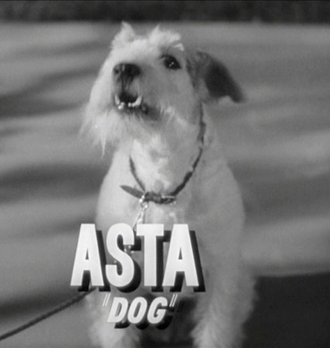 Cropped screenshot of Asta from the trailer for Shadow of the Thin Man